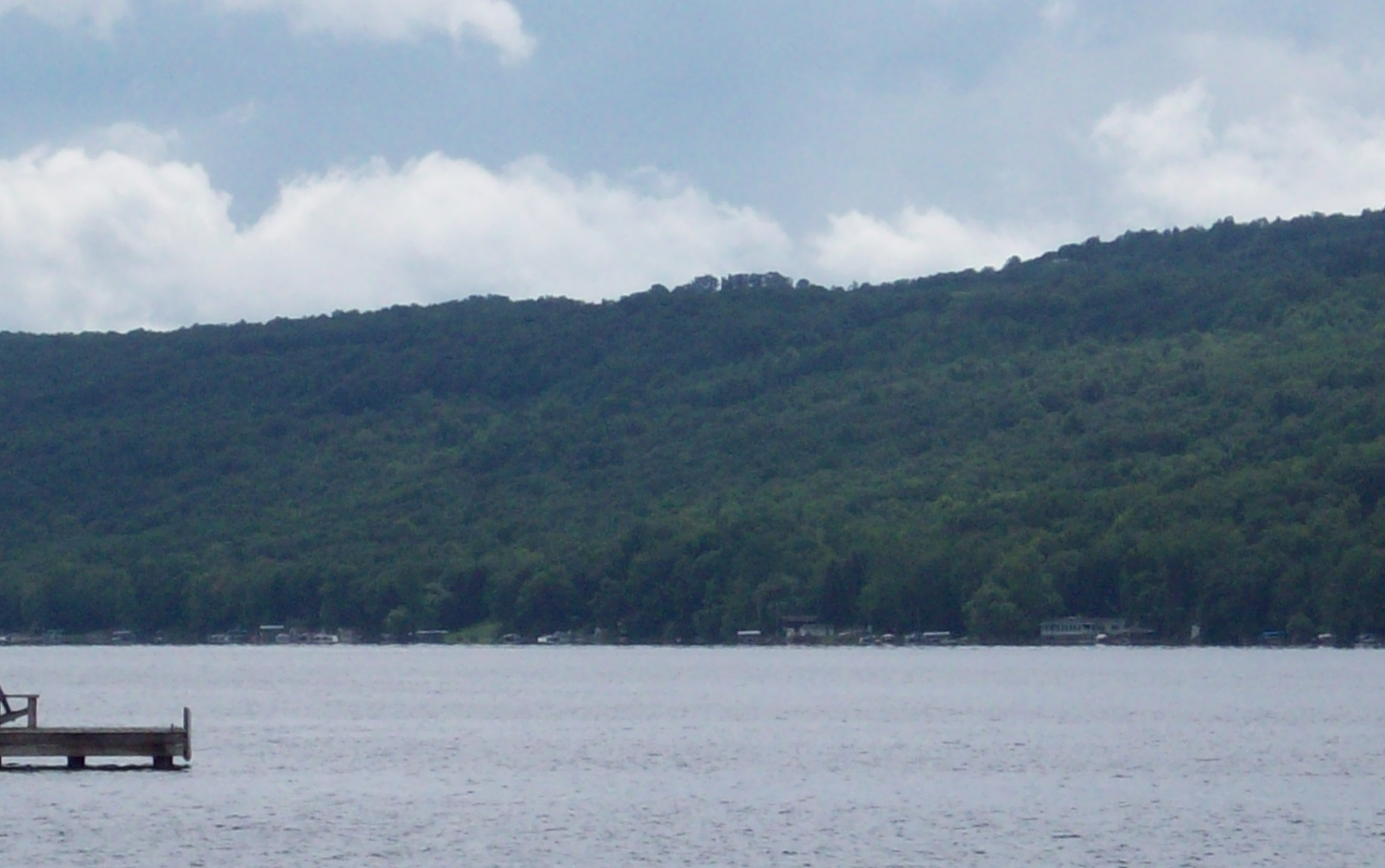 Digital photo of Bluff Point looking west over the east branch of Keuka Lake from Lower East Lake Road, Penn Yan, NY, on August 8, 2008.--Peter2212 (talk) 18:42, 8 August 2008 (UTC)